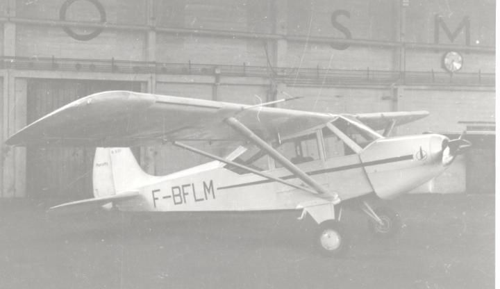 Boisavia B.601 Mercurey at Manchester (Ringway) Airport